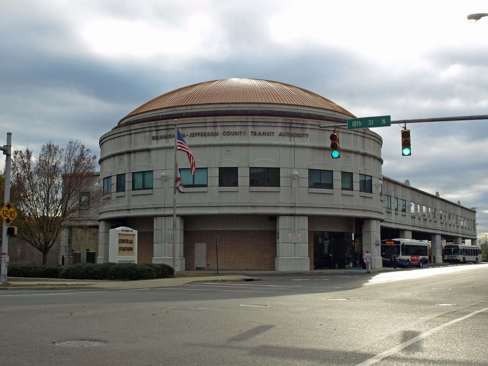 The bus terminal near the Amtrak station in Birmingham, Alabama.